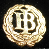 Finnish International Baccalaureate student cap insignia Kokard för en finsk International Baccalaureate-students studentmössa International Baccalaureate-lyyra suomalaiseen ylioppilaslakkin